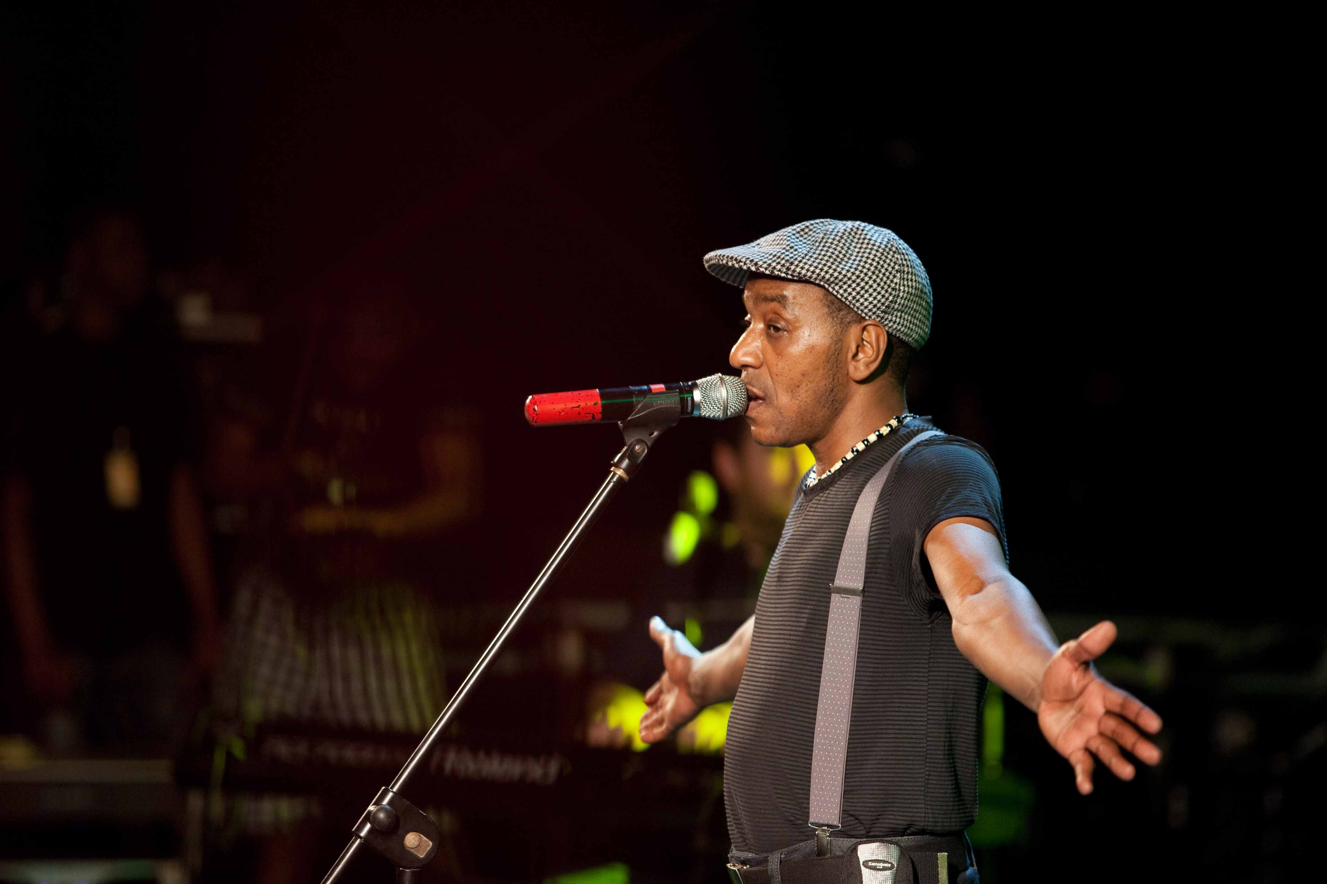 Tito Paris in celebration of 35th anniversary of independence Cape Verde.